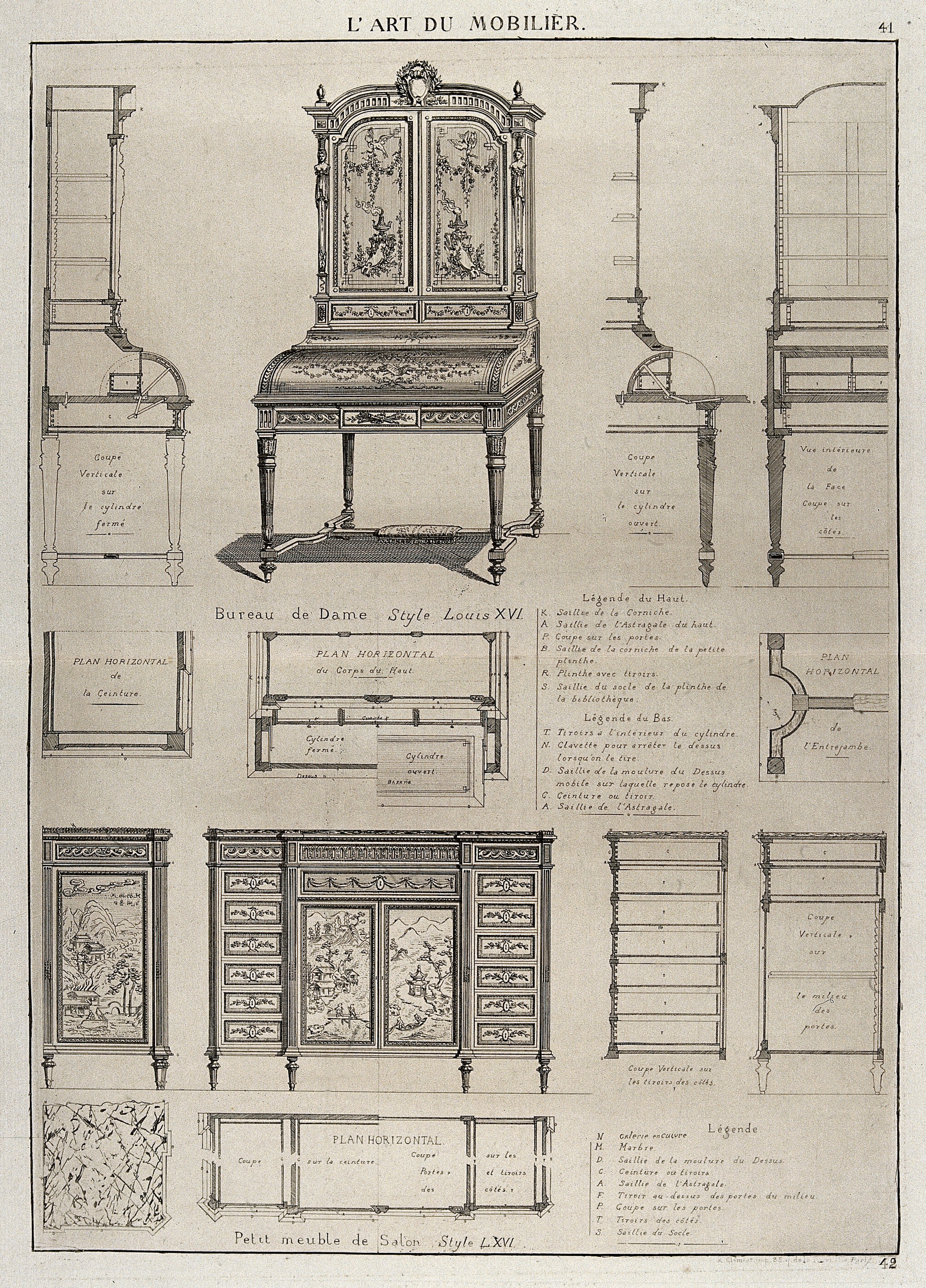 Cabinet-making: decorative architectural elements. Etching by J. Verchère after himself, 1880. Iconographic Collections Keywords: J. Verchère